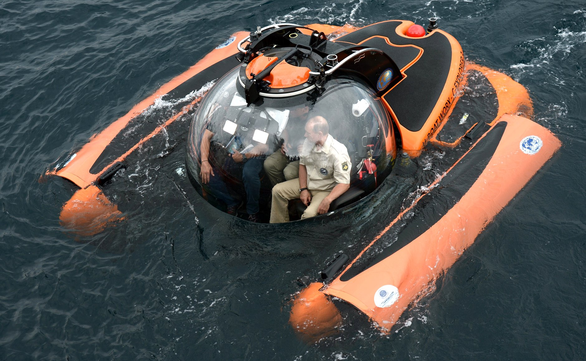 Vladimir Putin took part in one of expeditions of the Russian Geographical Society on inspection of the antique ships which sank in the Black Sea